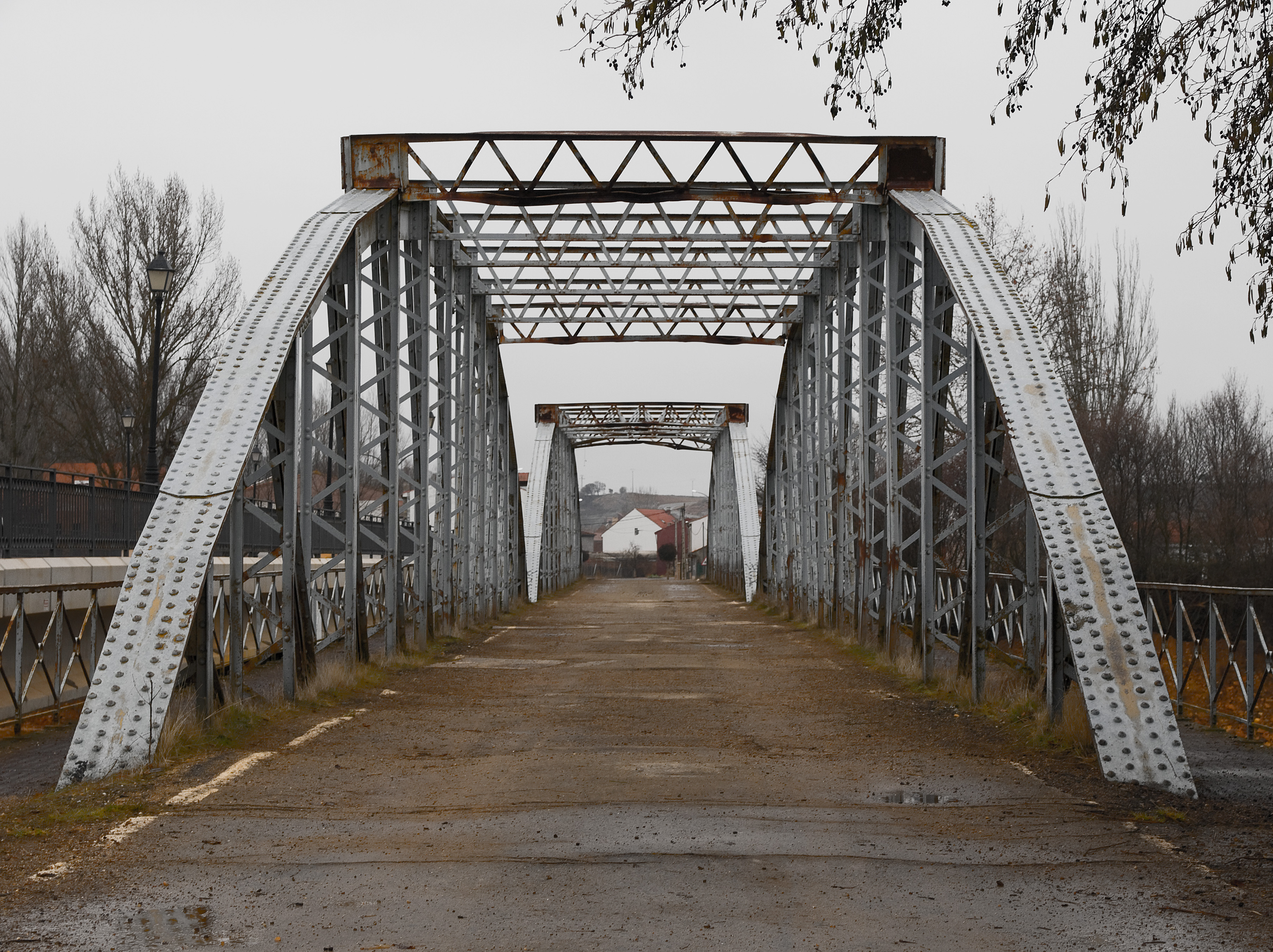 The iron bridge in Castrocalbón, province of León, Spain